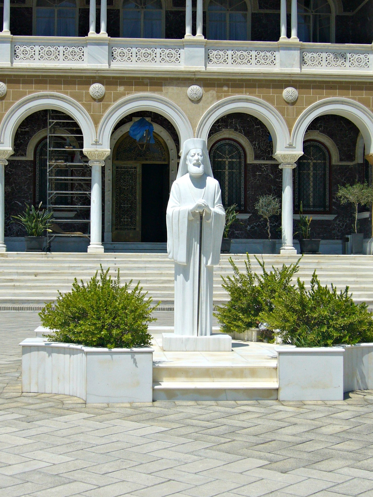 The Archbishop's palace with the statue of Makarios in Nicosia, Cyprus